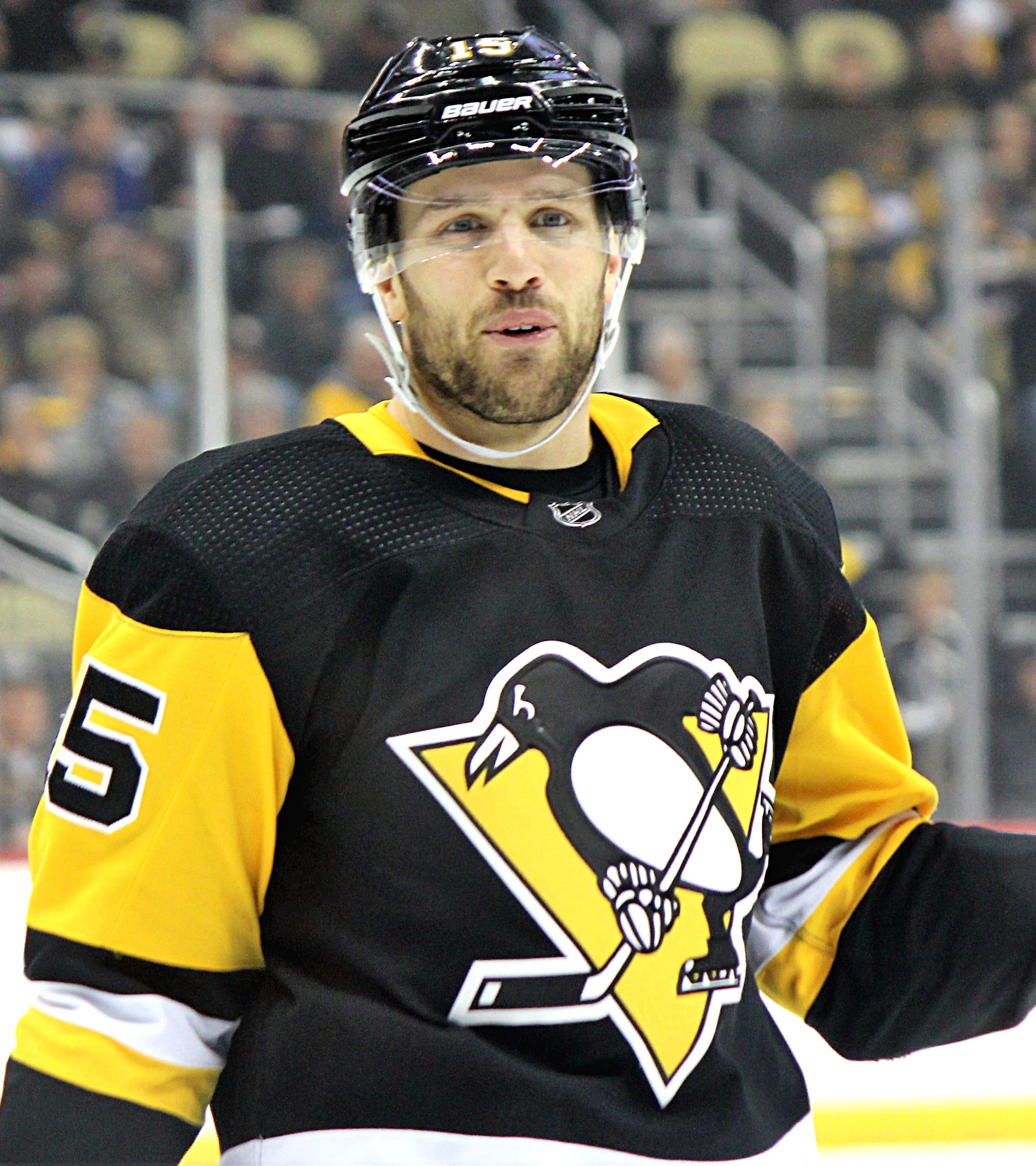 Pittsburgh Penguins forward Riley Sheahan during a game against the New York Islanders, Saturday, March 3, 2018, at PPG Paints Arena in Pittsburgh, PA.